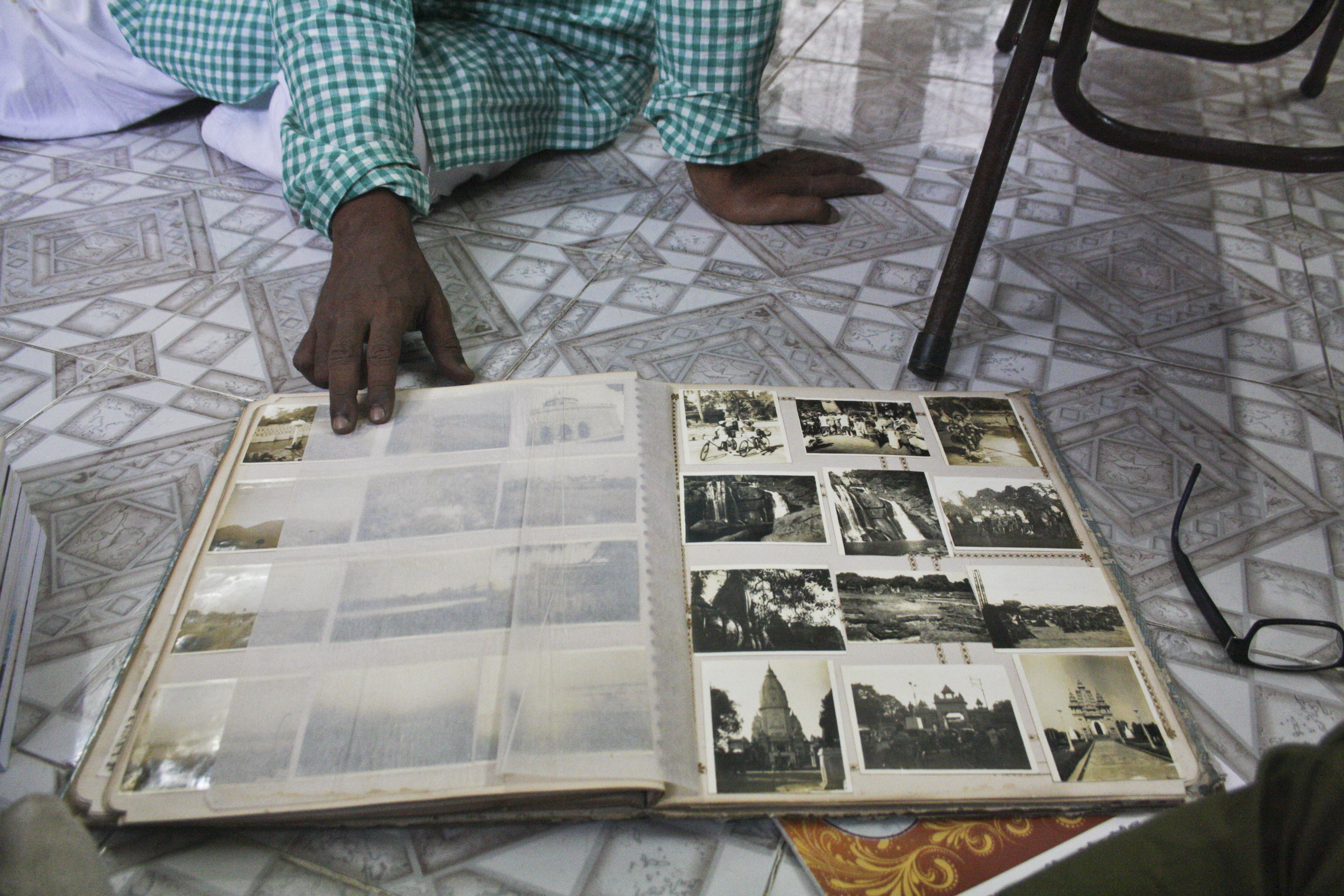 This photograph has been taken during a meeting with eminent travel writer Saktipada Bhattacharyya at his residence in Bhadreswar,Hooghly, West Bengal.